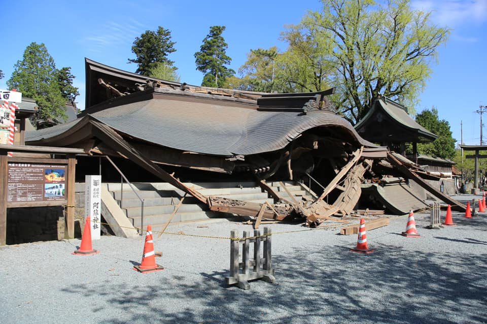 The Romon (tower) gate in front of Aso shrine completely destroyed in the 2016 Earthquake.